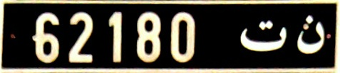 NT license plate, Tunisia